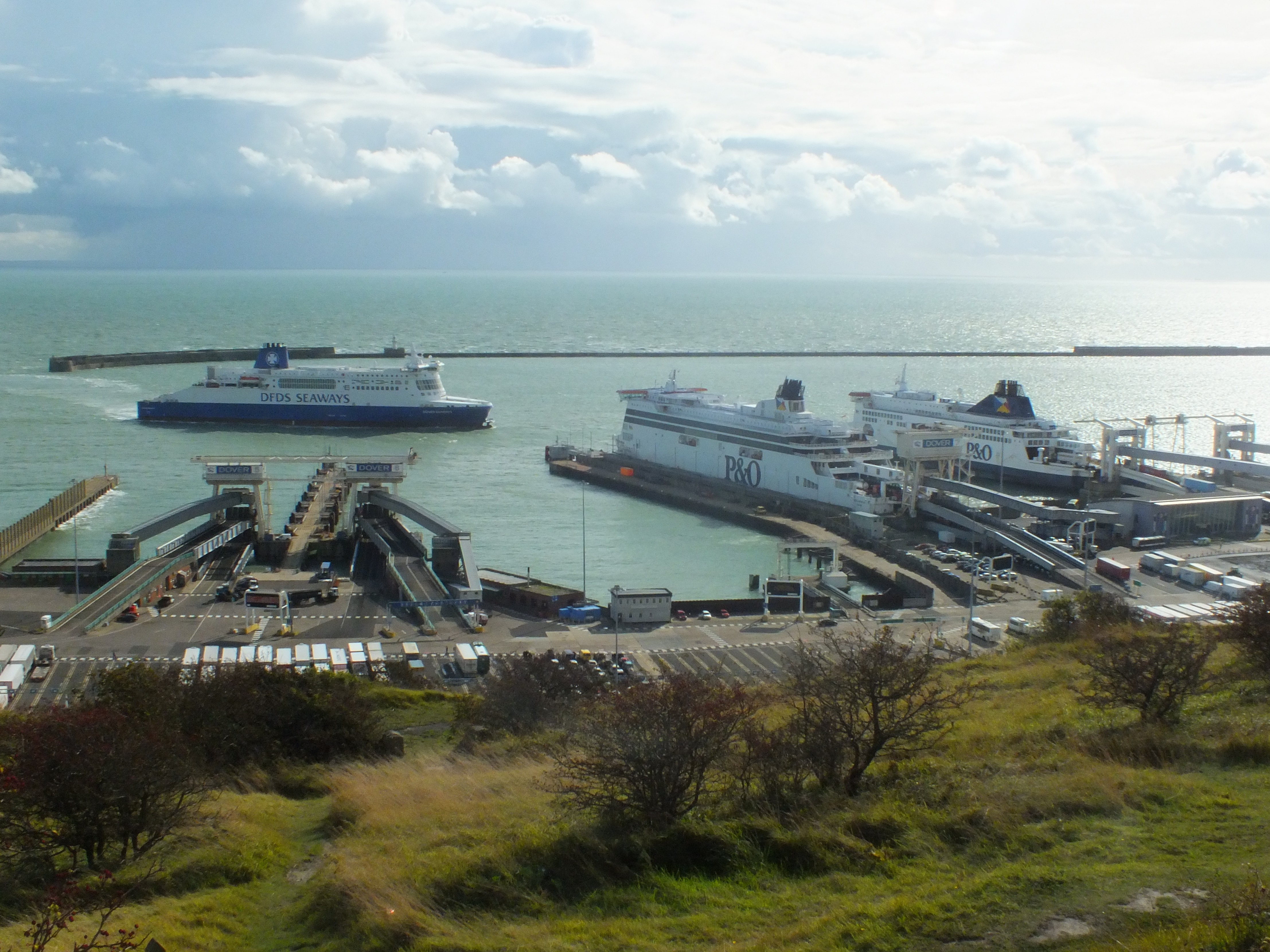 Langdon Cliffs rise 120 m, the lie to the east of Dover, heading to South Foreland. A spur directly above thePort of Dover, at the entrance to the White Cliffs Visitors Centre gives views over port and the eastern facade of Dover Castle. P&O Spirit of Britain P&O Pride of Canterbury DFDS Dover Seaways